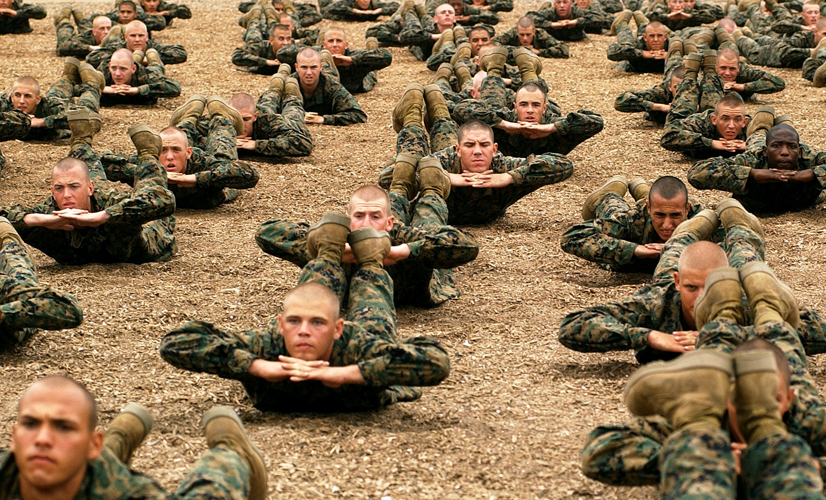 United States Marine Corps recruits at Marine Corps Recruit Depot San Diego, Company C, stretch out their abdominal muscles before a martial arts session on August 18, 2006.